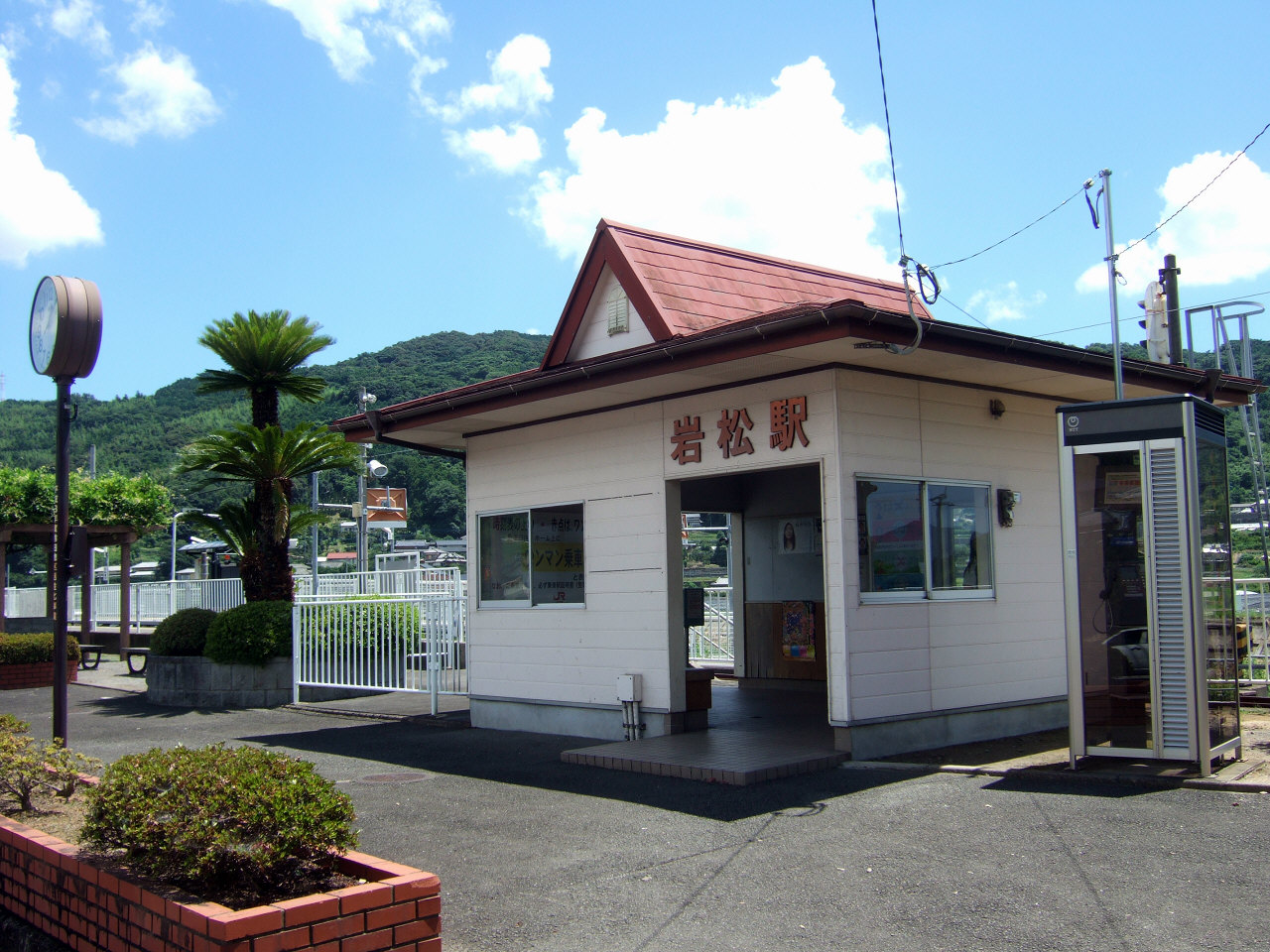 Iwamatsu Station（JR-Kyushu Omura Line）